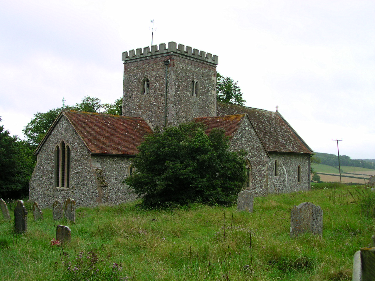 East Dean parish Church, West Sussex, England.